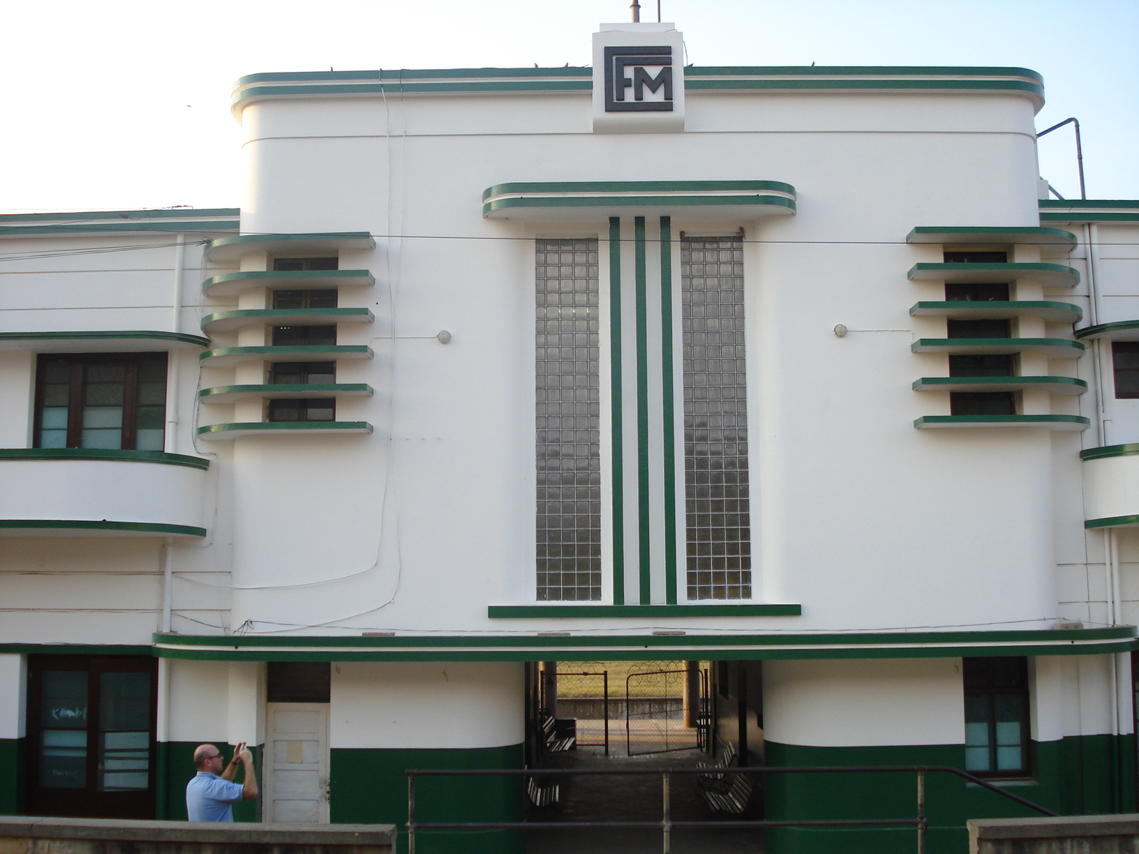 Railway station of Ressano Garcia, in the border between Mozambique and South Africa. The building had just been renovated